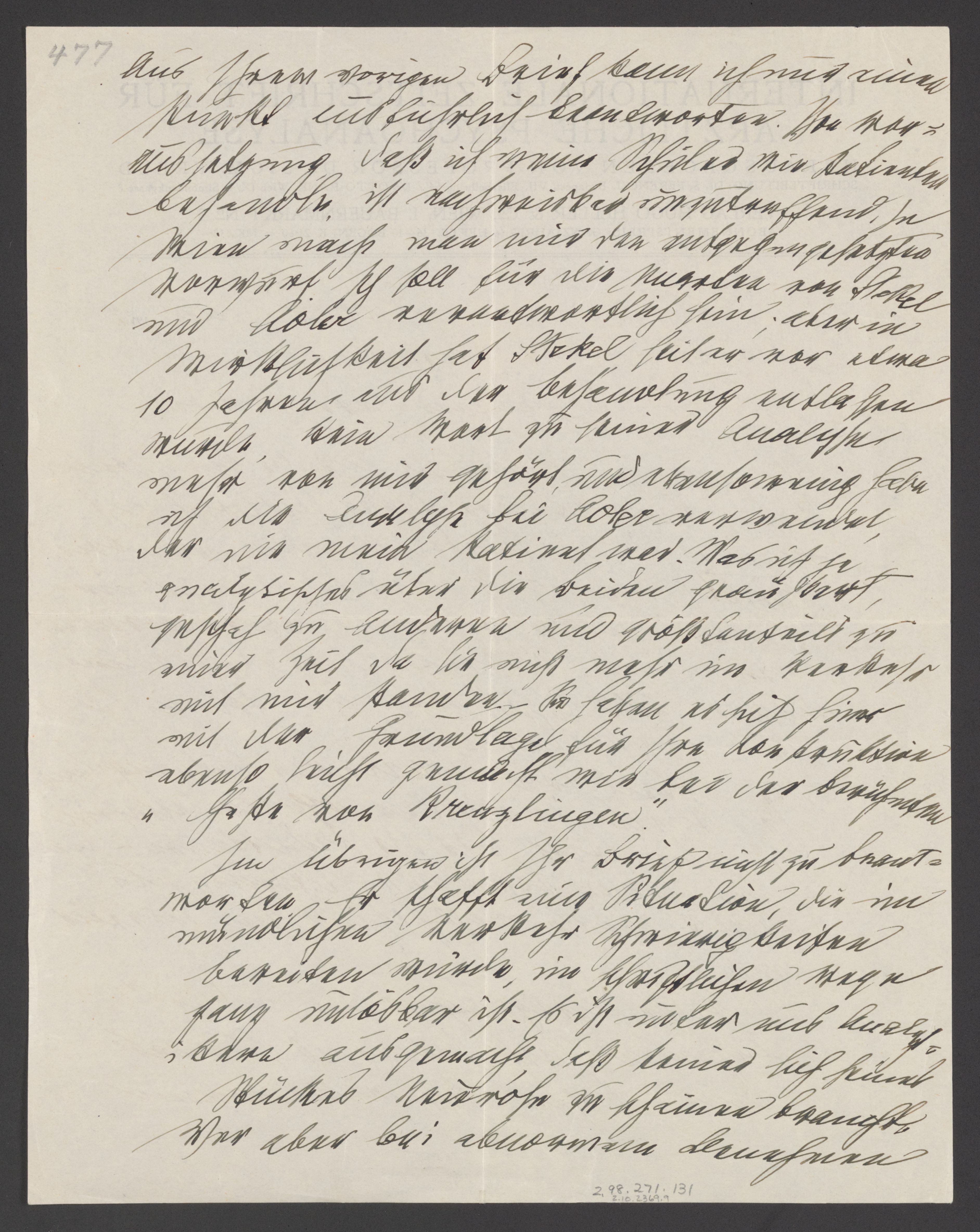 Image 3 of Sigmund Freud Papers: General Correspondence, 1871-1996; Jung, C. G.; From Freud; Originals; 1913.